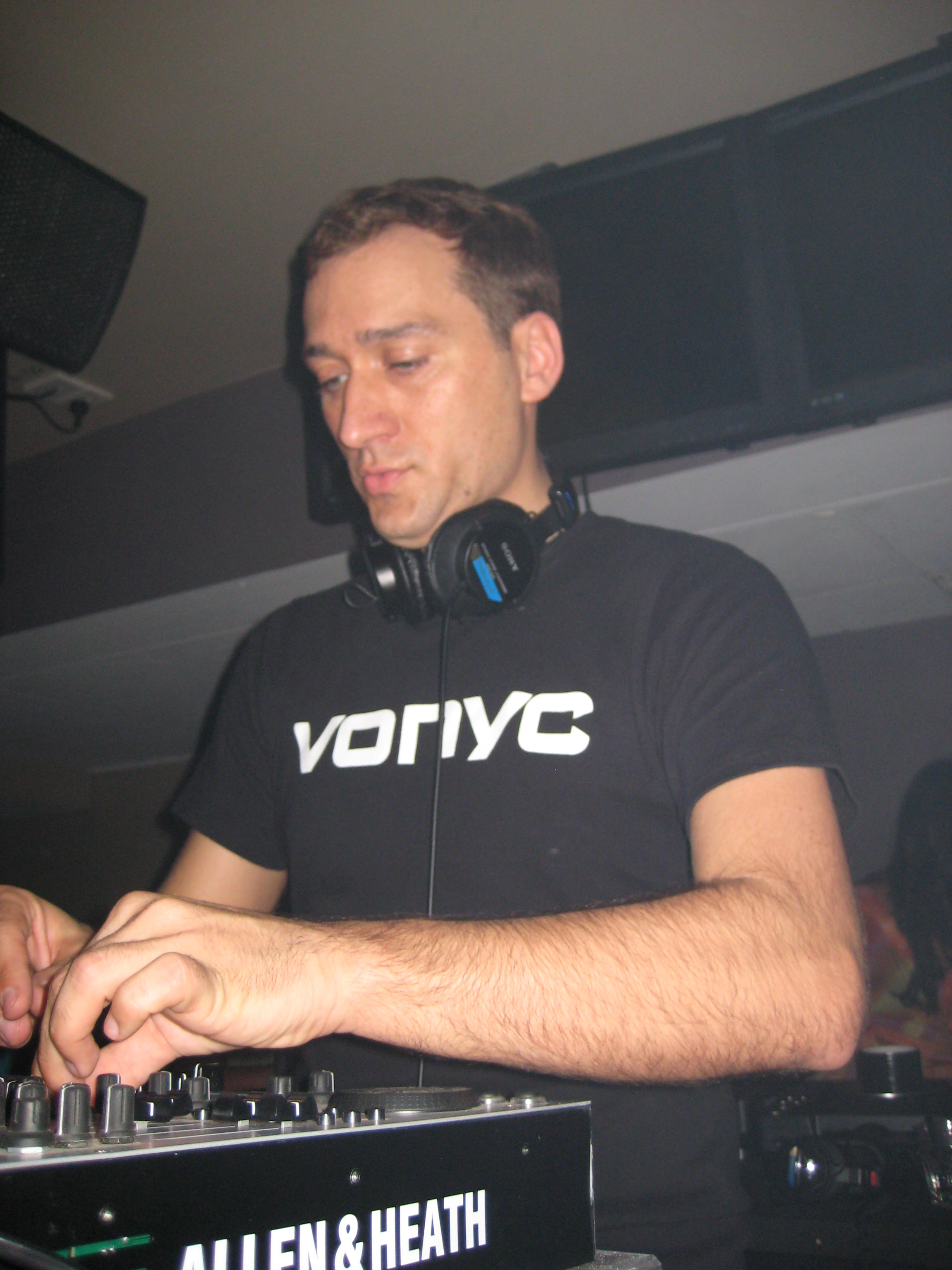 Paul van Dyk in 2007.